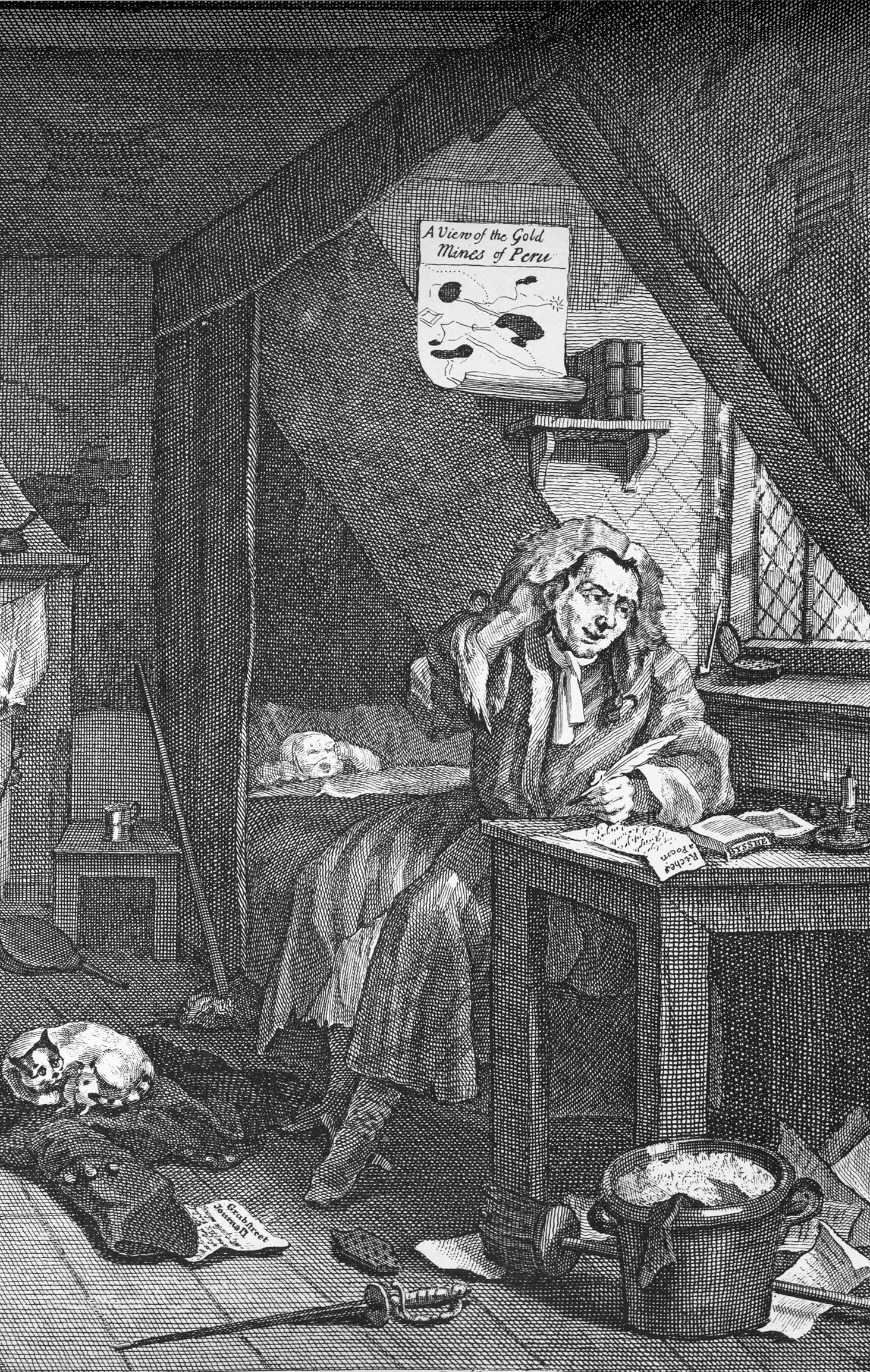 William Hogarth's The Distress'd Poet, detail, 1737.